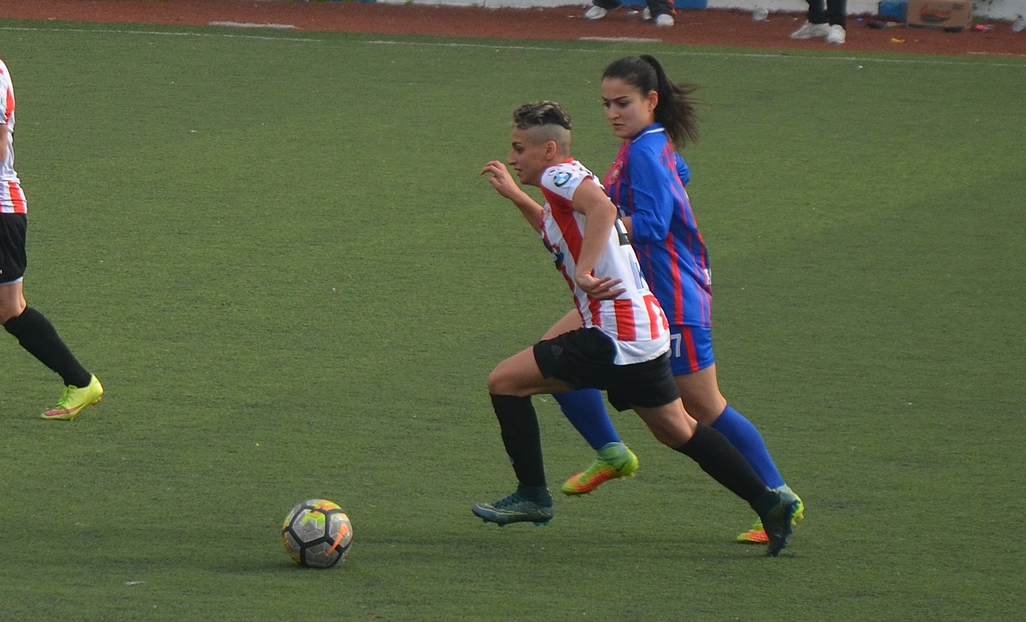 İlayda Civelek for Ataşehir Belediyespor in the home match against Fatih Vatan Spor in the 2017-18 season.